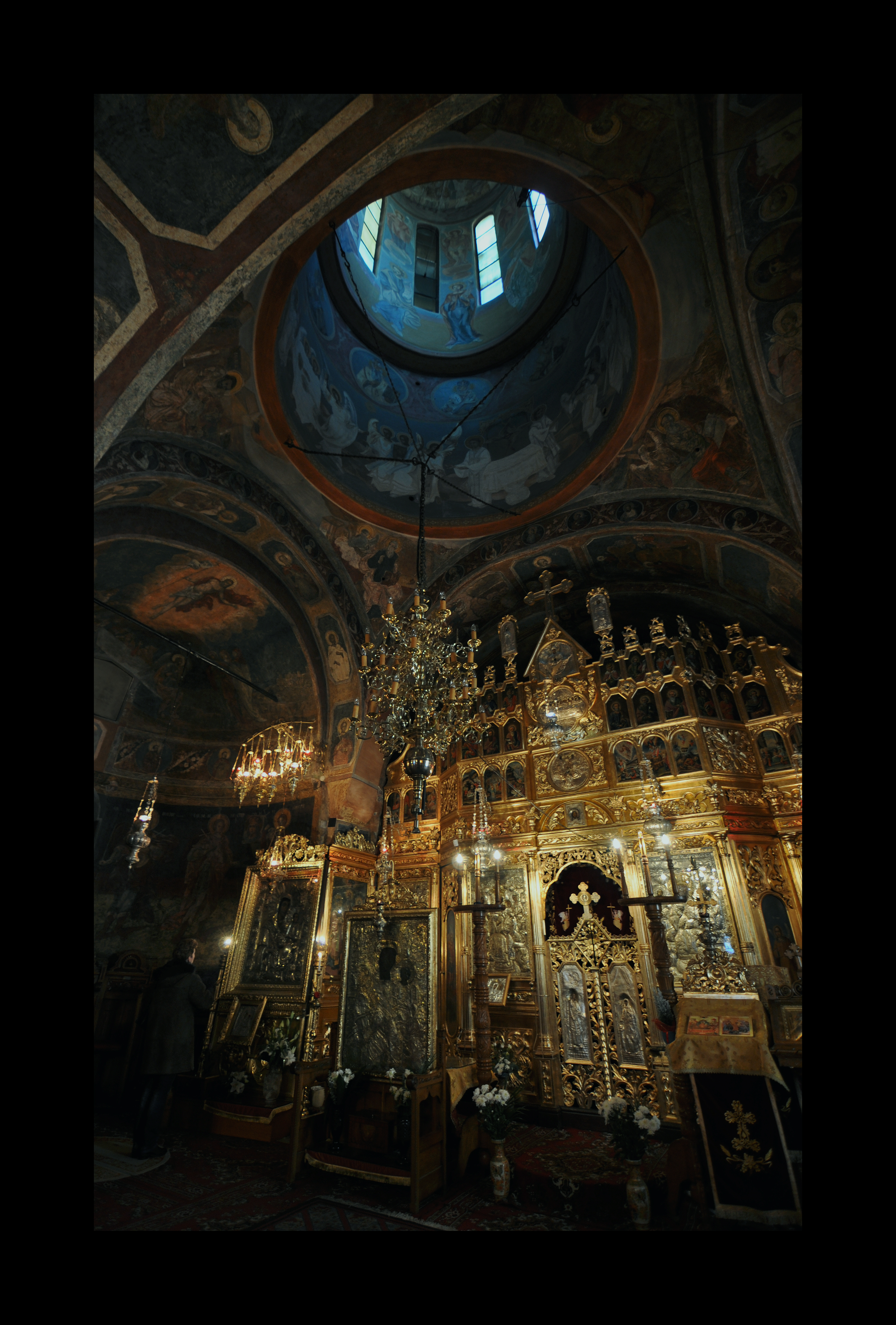 Biserica Olari, Bucuresti "Saint Nicholas, Dormition of the Theotokos"-Olari Church [finished in 1758] "Potters Church", Bucharest, Romania